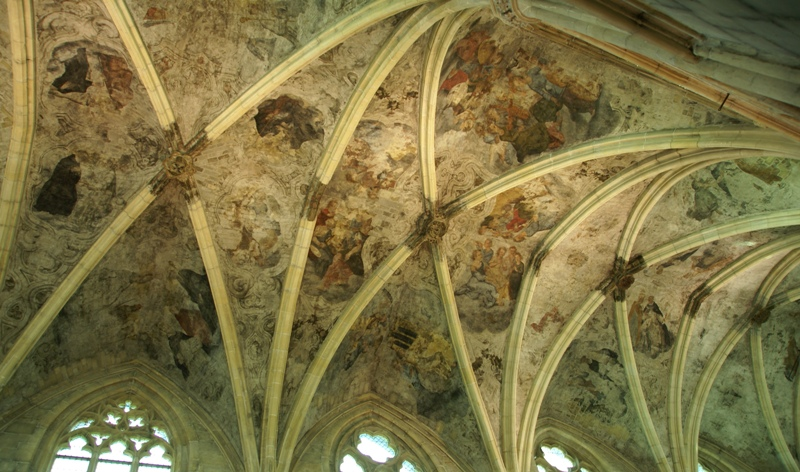 Dominicanenkerk, Maastricht, The Netherlands - painted ceiling, early 17th century